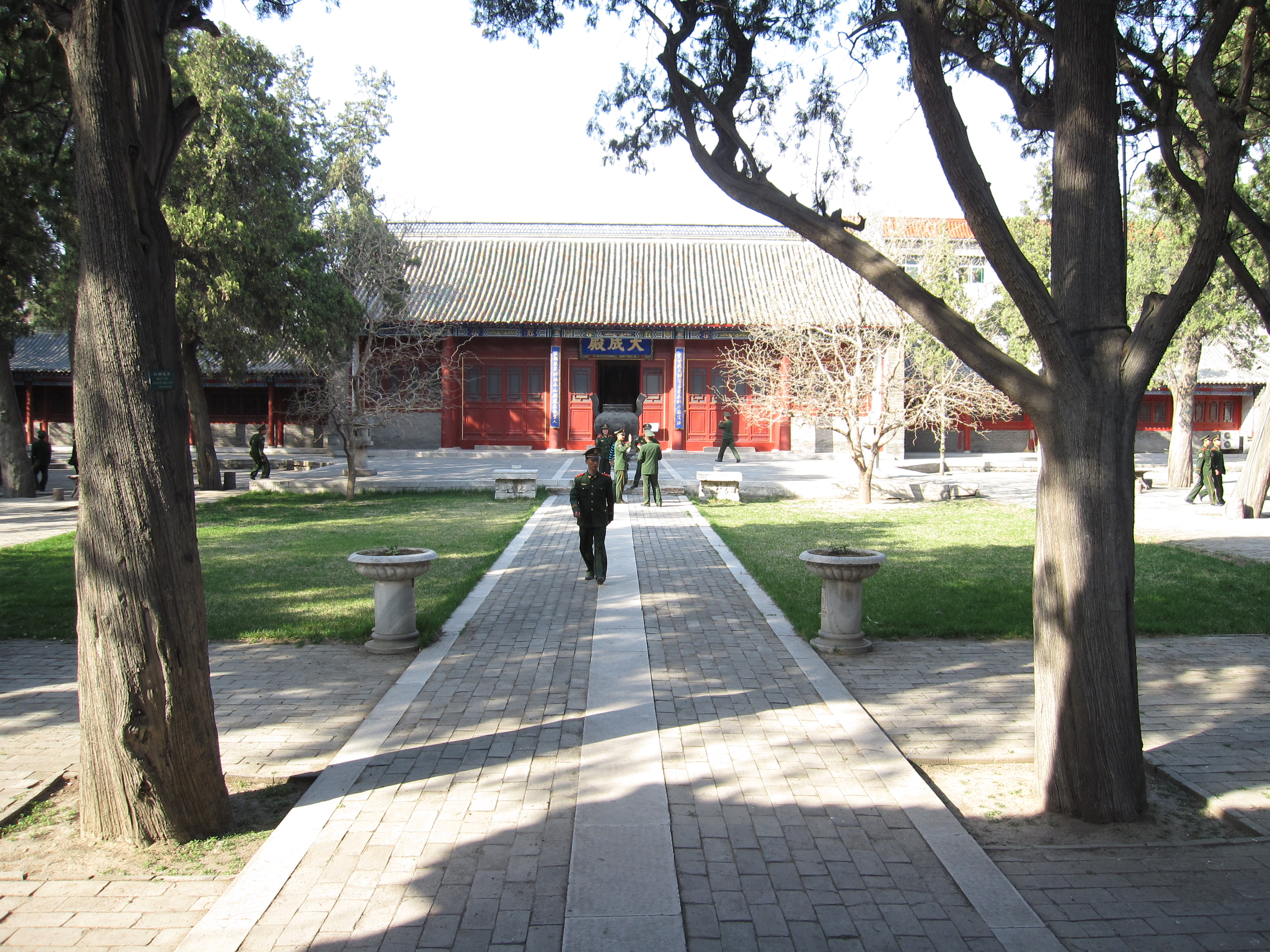 The main hall of the Confucian Temple in Dingzhou, China.